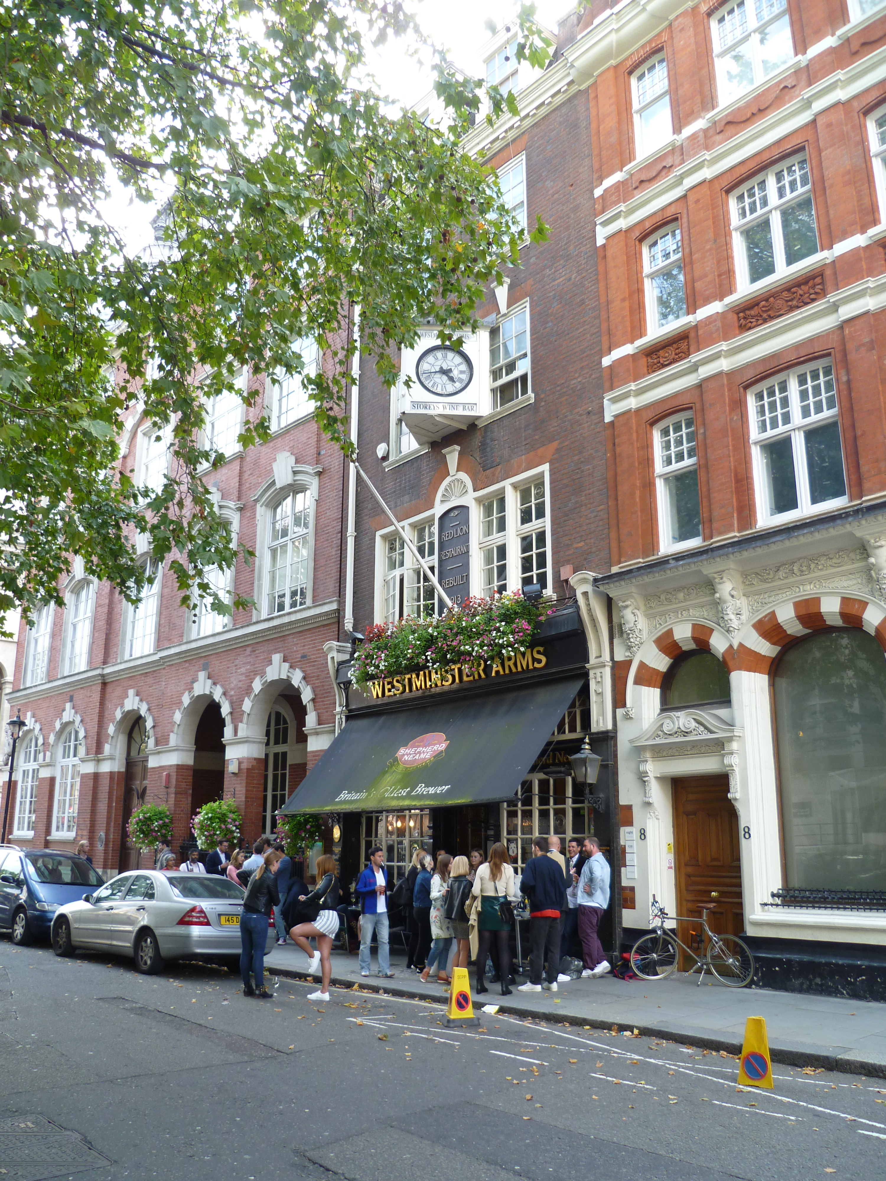 London